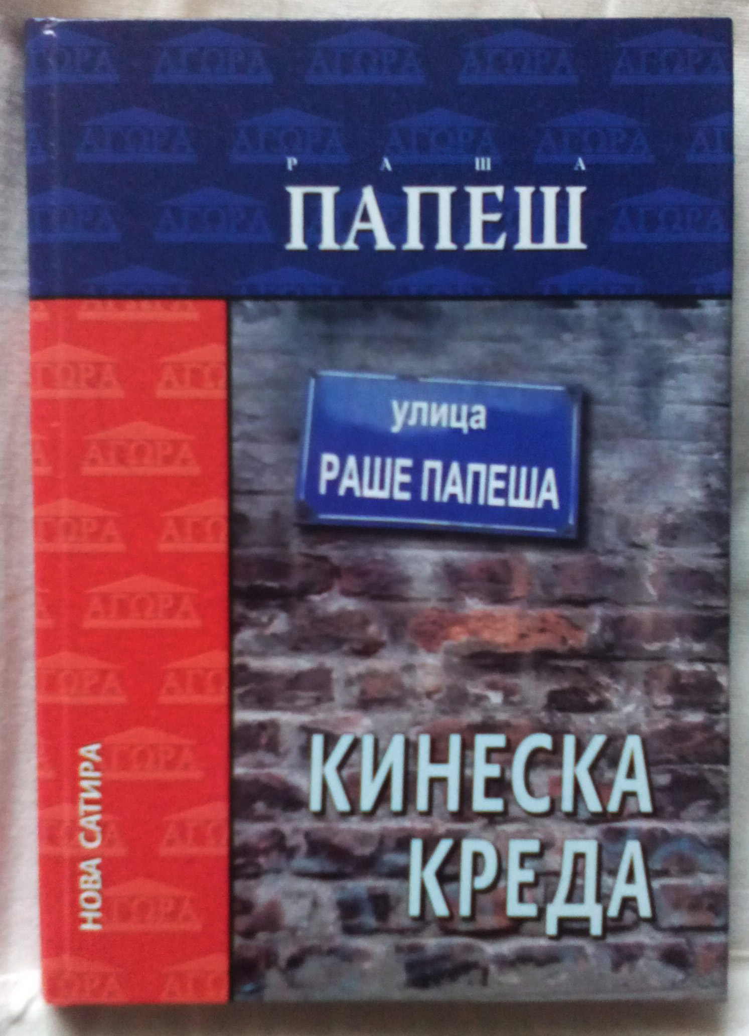 A book